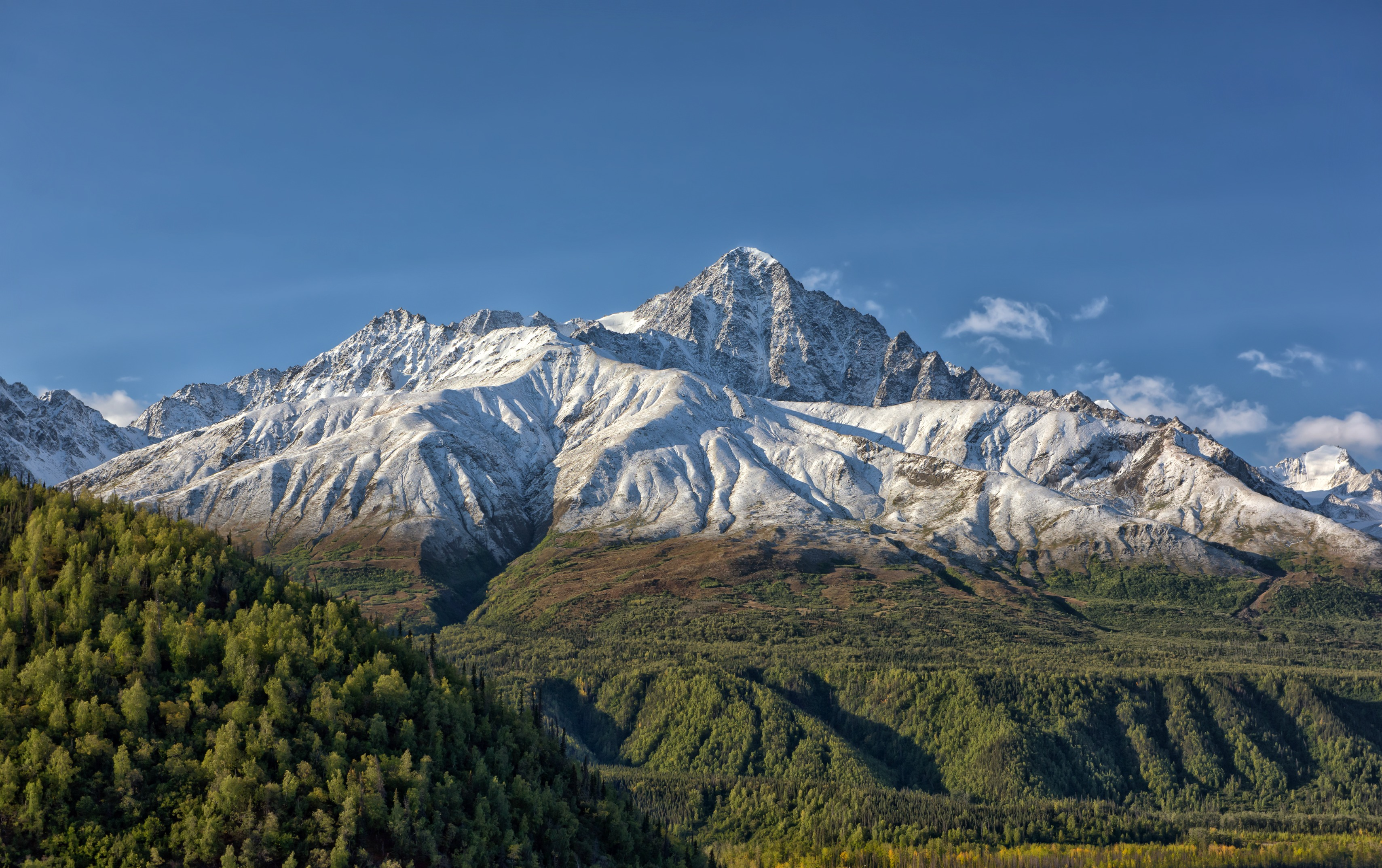 Amulet Peak, one of the major peaks of Alaska's Chugach mountain range.